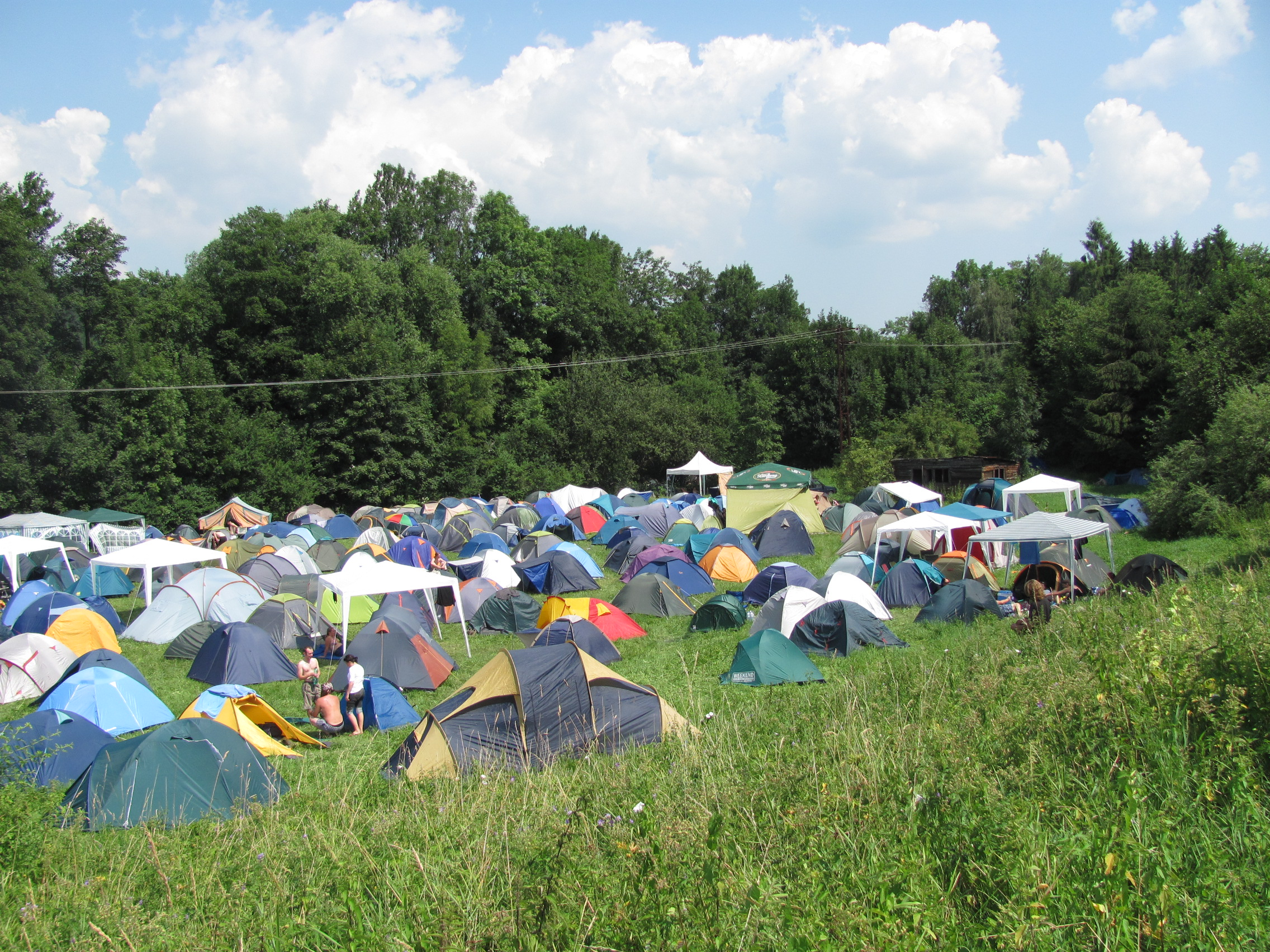 Campsites, Masters of Rock 2010